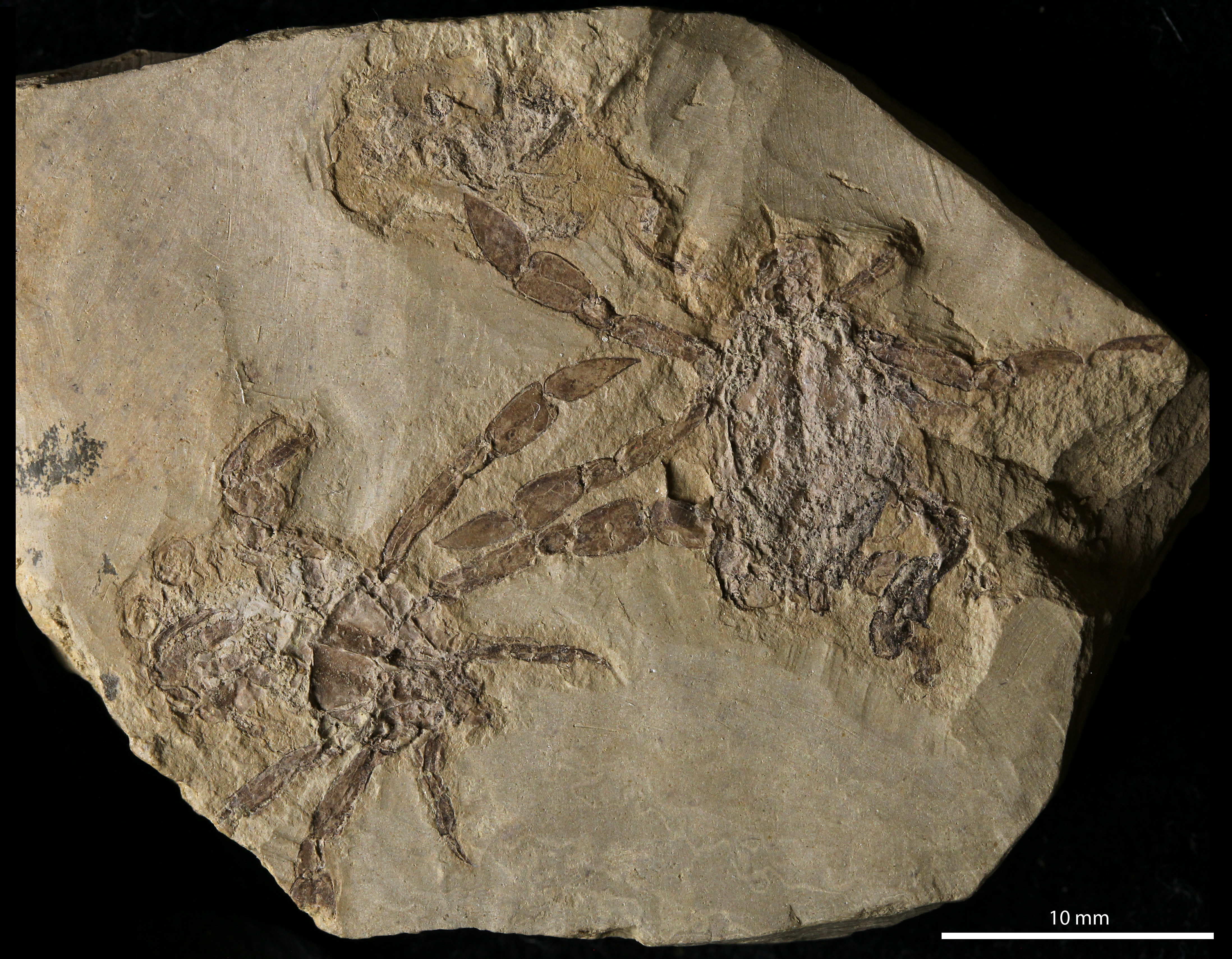 Two specimens of Callichimaera perplexa, a Mid-Cretaceous species of crab